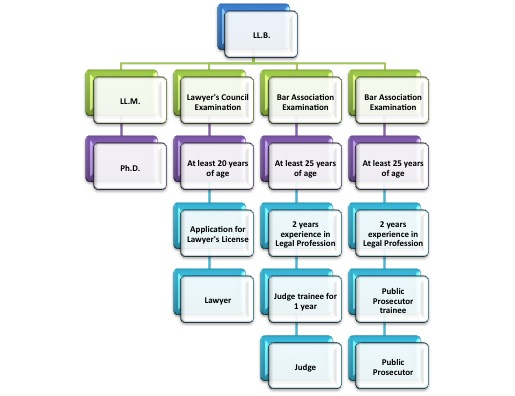 A Flowchart of the Legal Education System